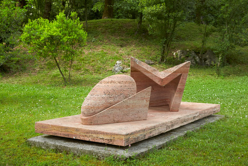 Ginko Biloba - 1972-74 - Hakone Museum